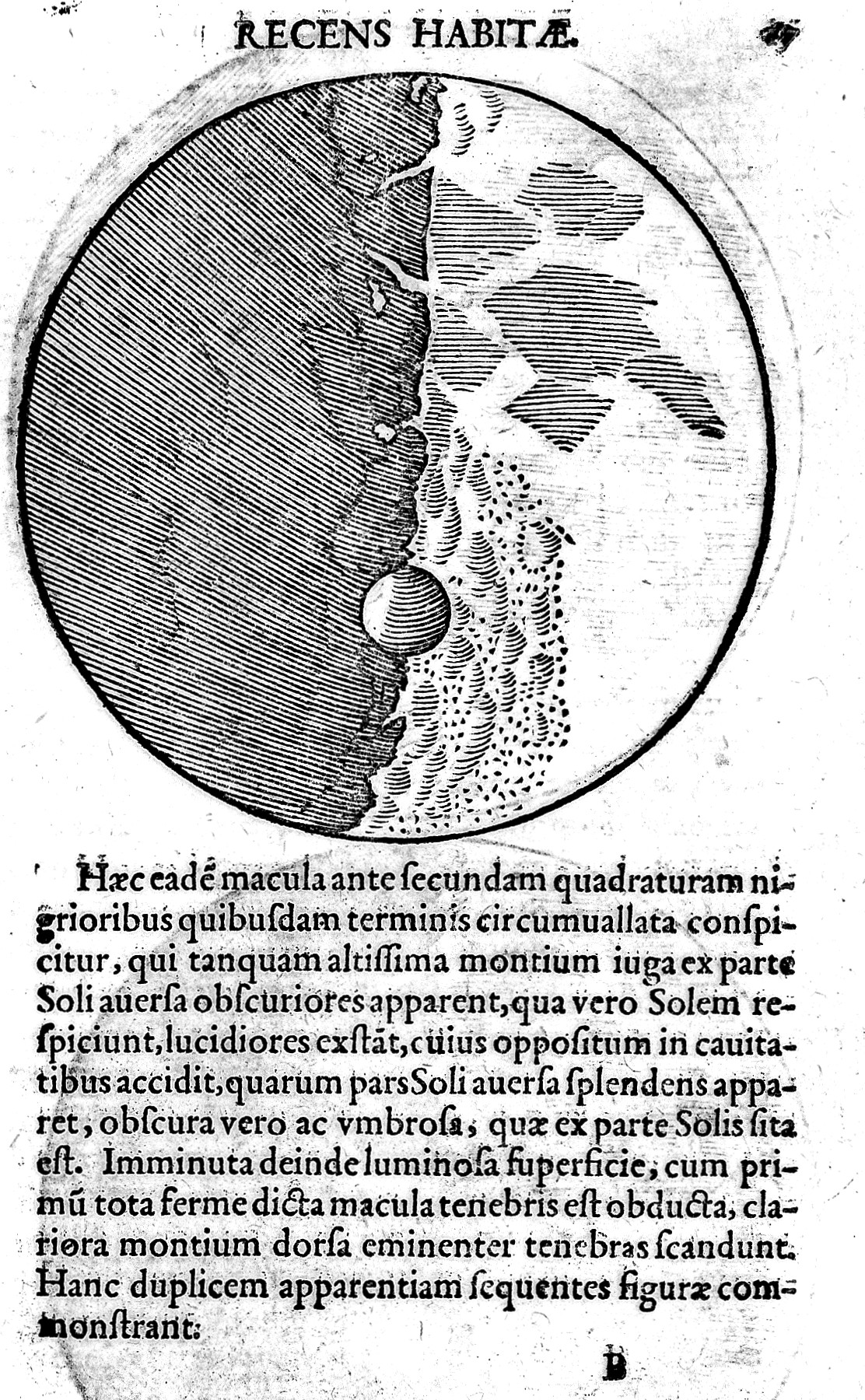 Diagram of moon showing shadow and craters, with text beneath Rare Books Keywords: astonomy, 17th century; Galileo Galilei; Galileo Galilei